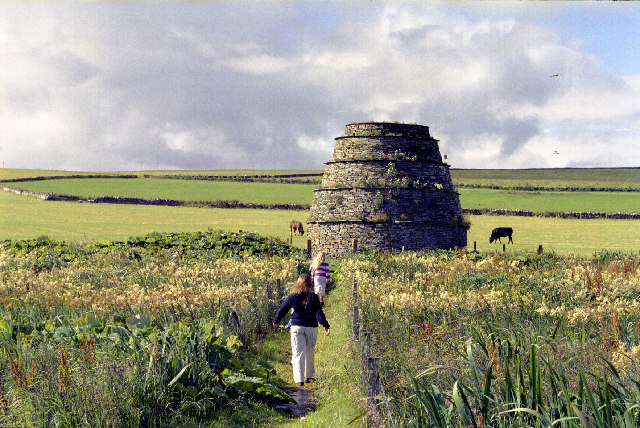 Rendall Doocot. The doocot (dovecote) at Hall of Rendall - 17th century, and the only round dovecote of this date in mainland Orkney. The ridges and 'steps' are designed to stop rats climbing up!